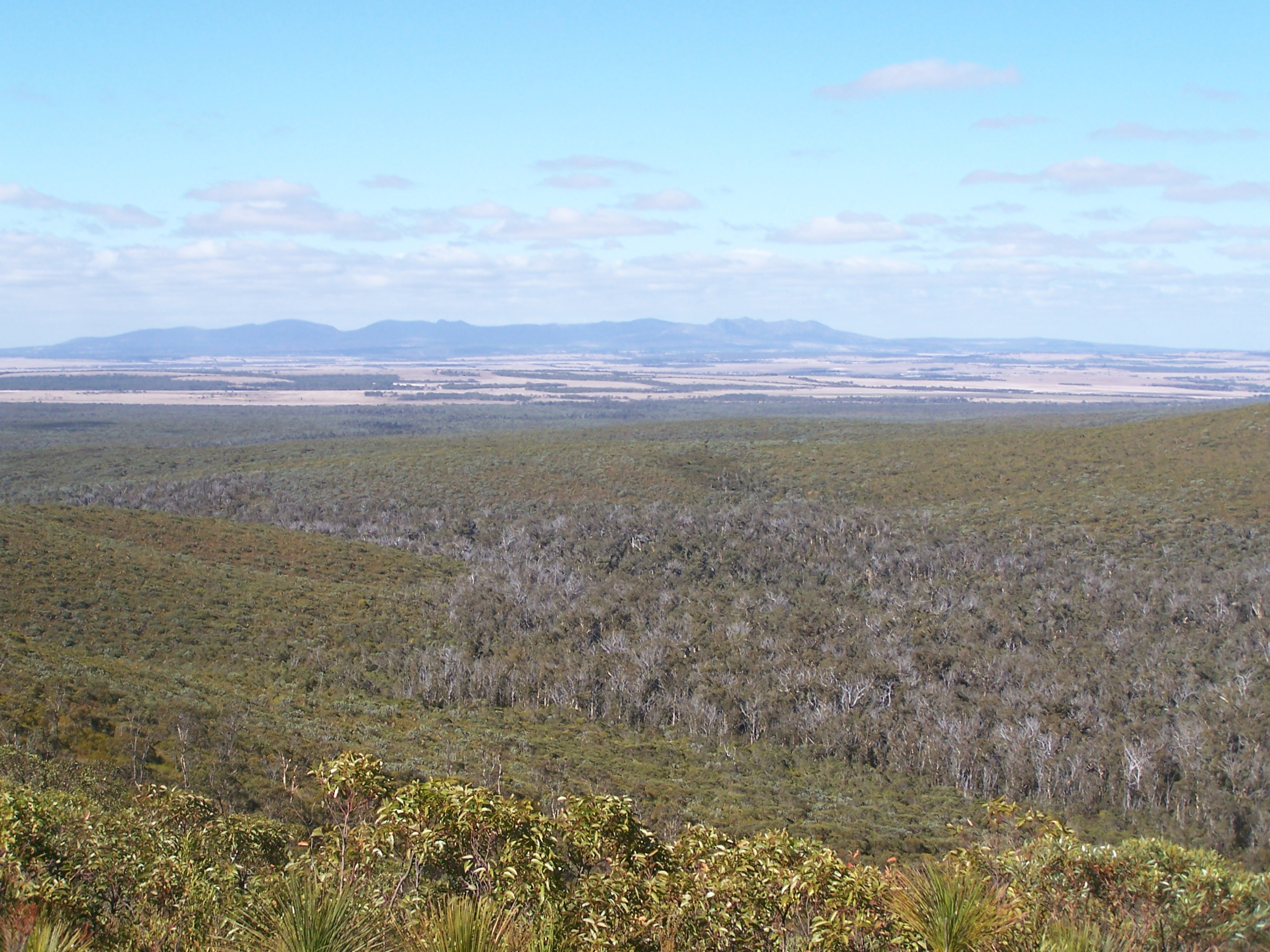 Image taken in the Stirling Range Porongarups view from the Stirling Range